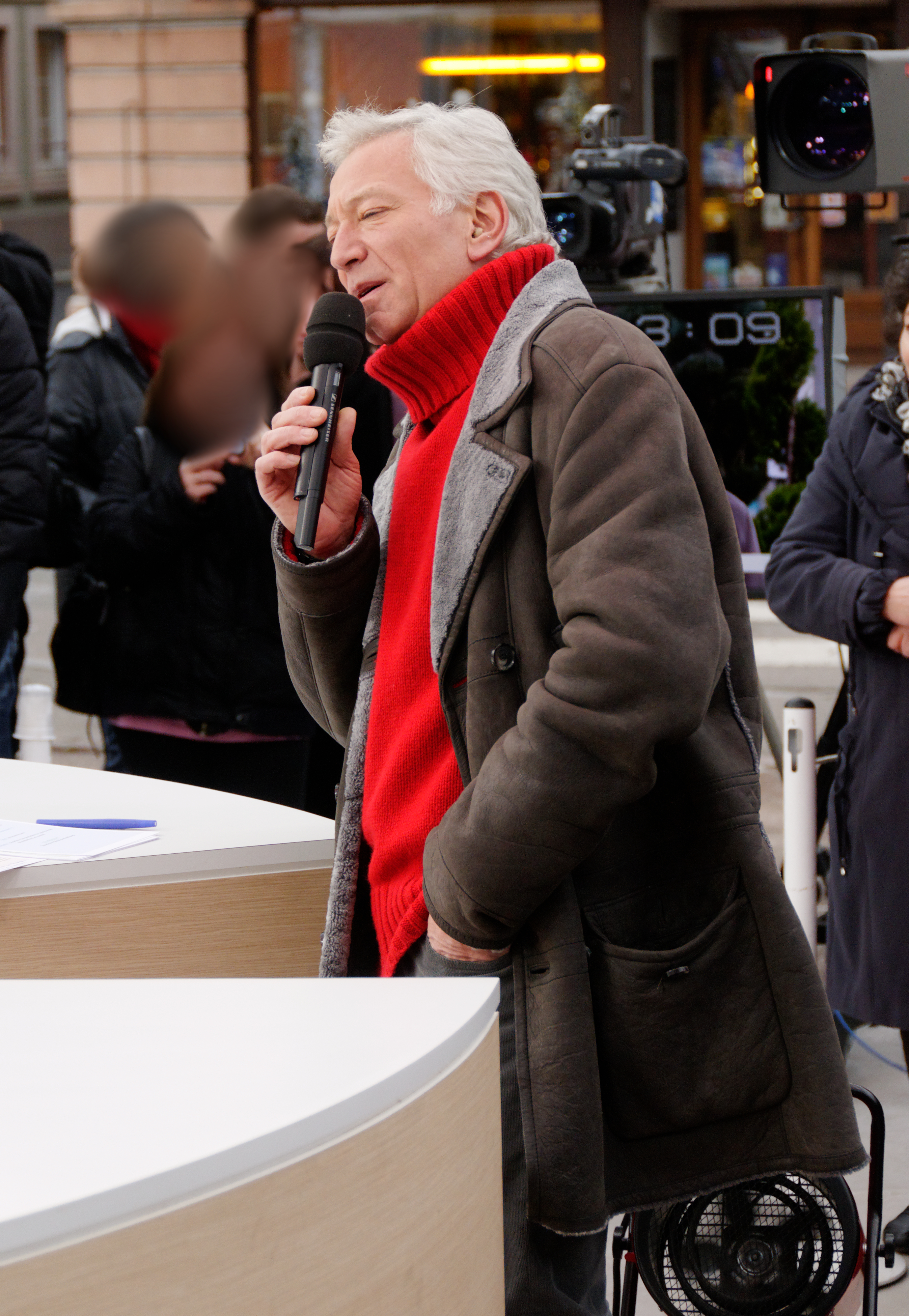 This photograph was taken with a Nikon D300 Personality rights warningAlthough this work is freely licensed or in the public domain, the person(s) shown may have rights that legally restrict certain re-uses unless those depicted consent to such uses. In these cases, a model release or other evidence of consent could protect you from infringement claims.